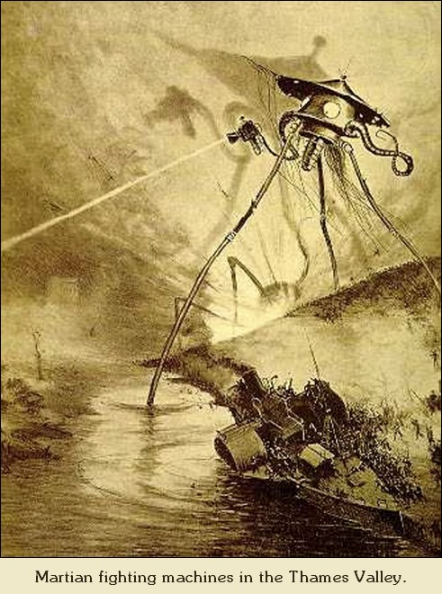 Illustration by Henrique Alvim Corrêa, from the 1906 Belgium (French language) edition of H.G. Wells' "The War of the Worlds", 1906. Orginal caption / oryginalny opis